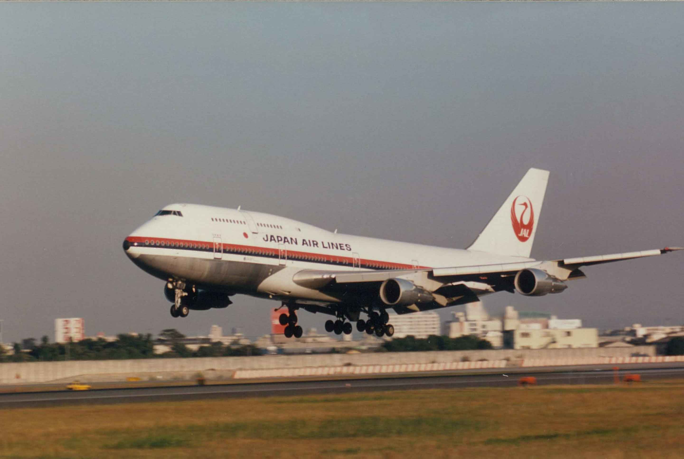 It is JAL which it photographed in Itami, Osaka Airport.